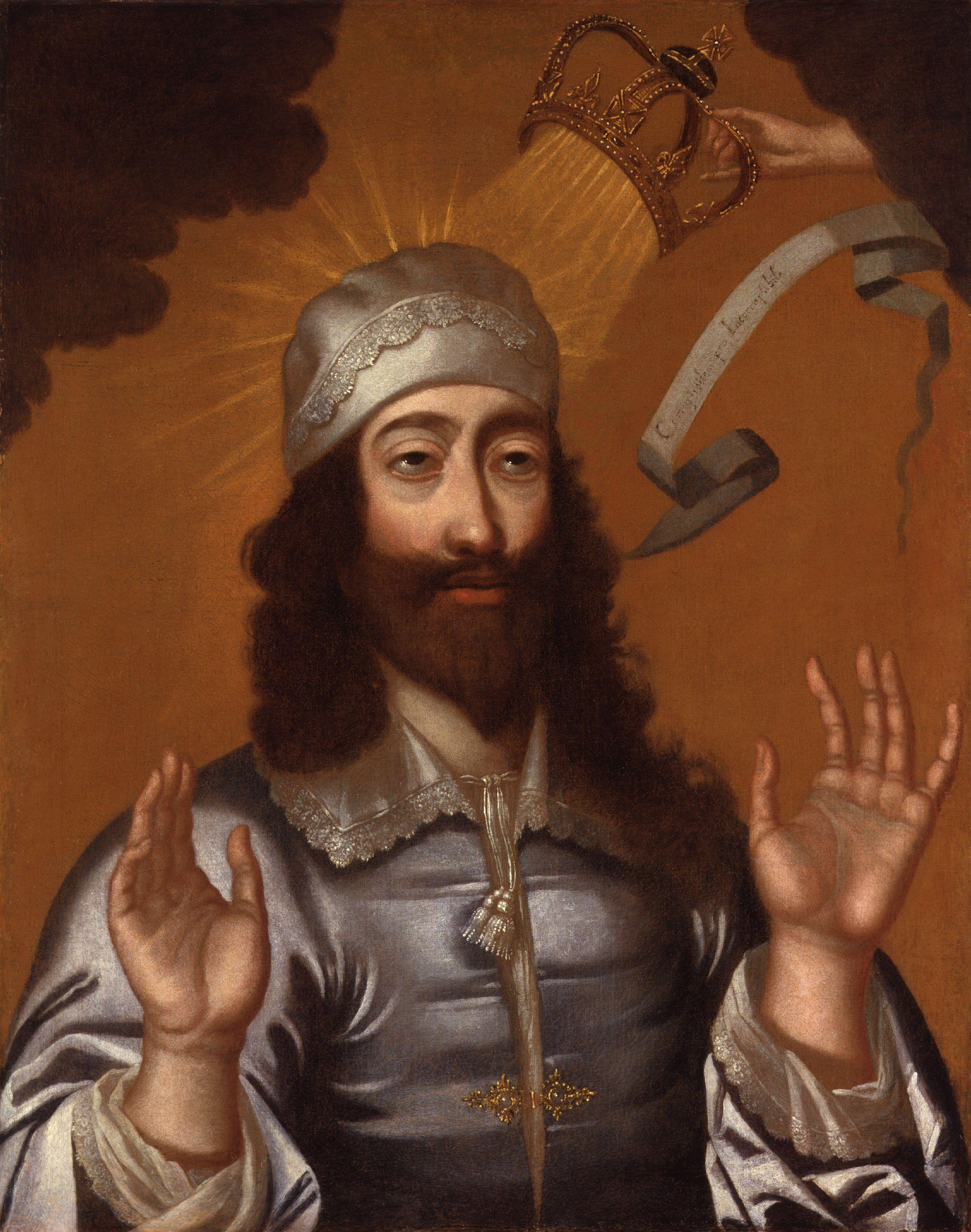 King Charles I, by unknown artist, given to the National Portrait Gallery, London in 1971. All images in this batch have an unknown author, but there is strong evidence it was first published before 1923 (based mainly on the NPG's estimated date of the work).